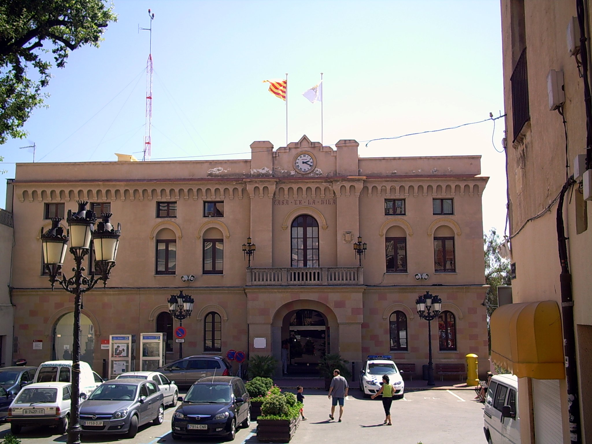 Town hall of Vilassar de Dalt (Catalonia). Building from 1884.